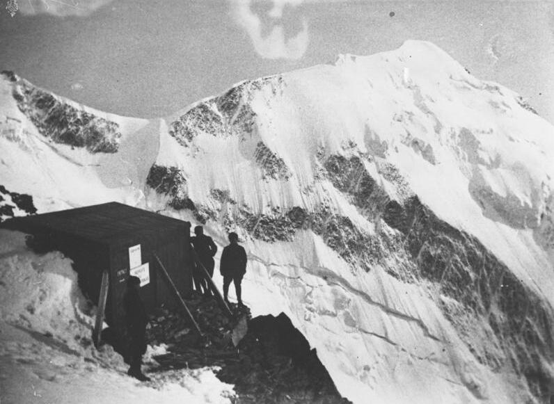 Aiguille de Bionnassay in Haute-Savoie, in the foreground the old Goûter Hut, built in 1906